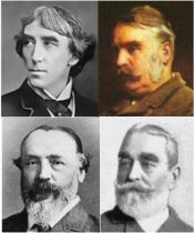 Composite of Henry Irving, W. S. Gilbert, Henry Labouchère and F. C. Burnand